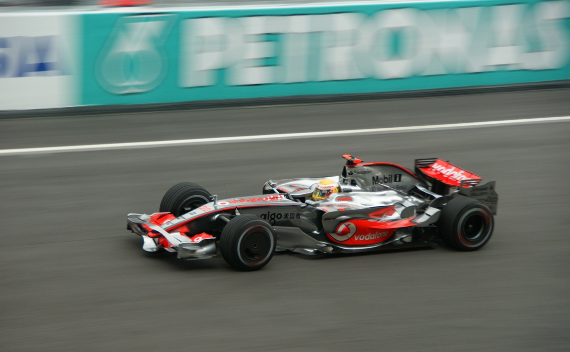 Lews Hamilton McLaren 2008 Malaysia